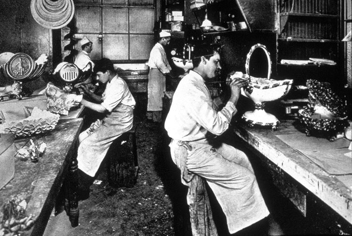 Photograph of the kitchen at Delmonico's, taken in 1902. Cooks are shown creating pièces montées from nougat and pate d'office (confectioner's paste) in the confectionery section of the kitchen. The "basket" at left is ornamented with the seal of the New York Chamber of Commerce, and may be intended for a dinner put on by that entity.